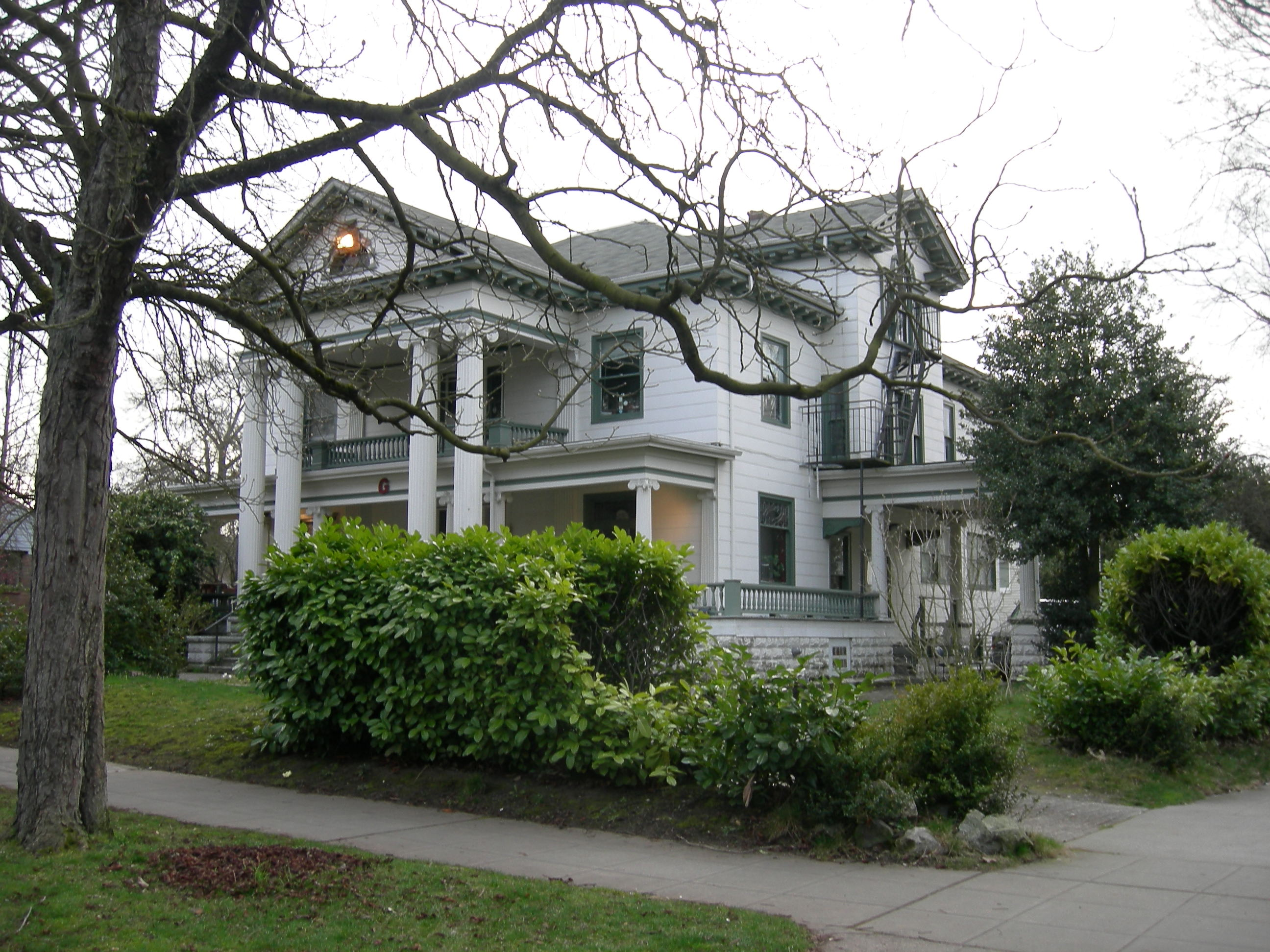 1729 17th Avenue E, Capitol Hill, Seattle, Washington. Originally known as the Galbraith House, the building is now a mental-health halfway house; One of the grandest surviving buildings of the early 20th century neighborhood once known as Renton Hill, the building has status as a city landmark.